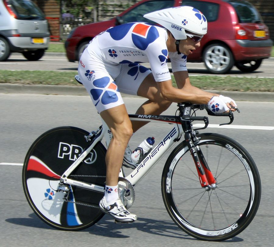 Anthony Geslin at the 2009 Eneco Tour prologue